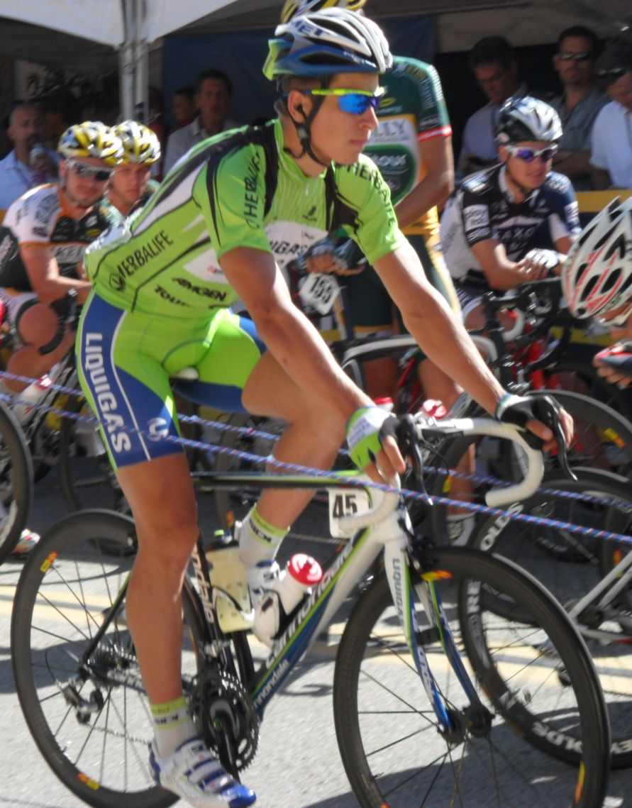 Peter Sagan in green won the sprint and the youth classifications at the 2010 Tour of California